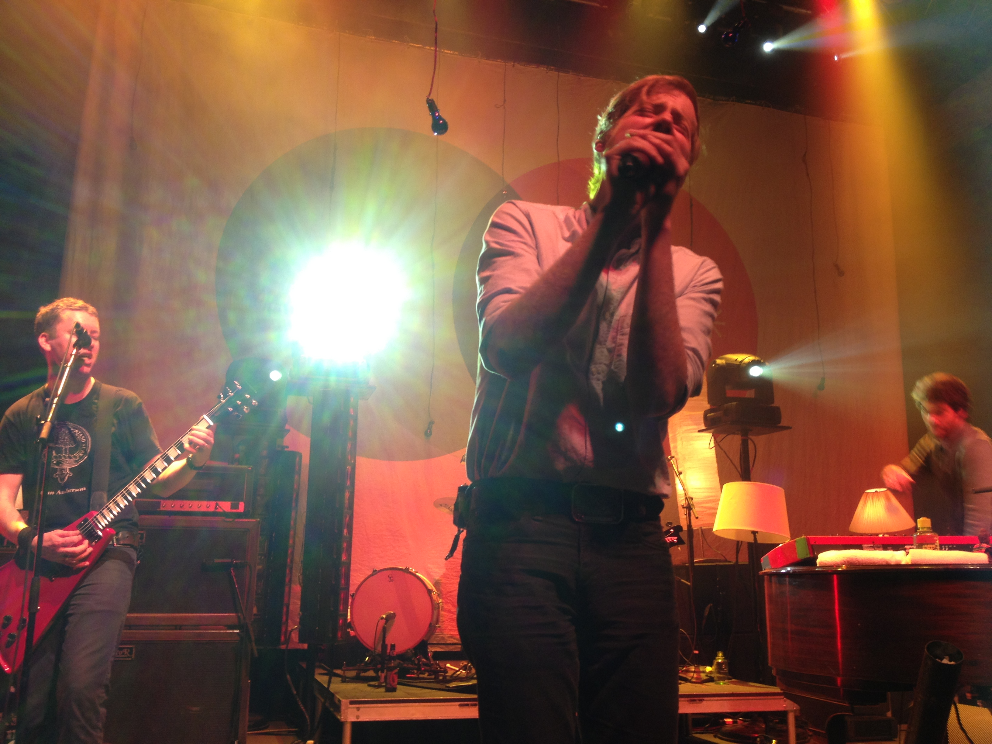 Jack's Mannequin performs in Washington, DC, as part of the People and Things Tour in February 2012